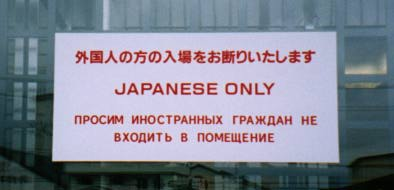 "Japanese Only" sign, at Yunohana Onsen, Otaru City, Hokkaido, Japan. Rendered in Japanese, English and Russian, barring patrons not ethnically Japanese from using the bathing facilities.